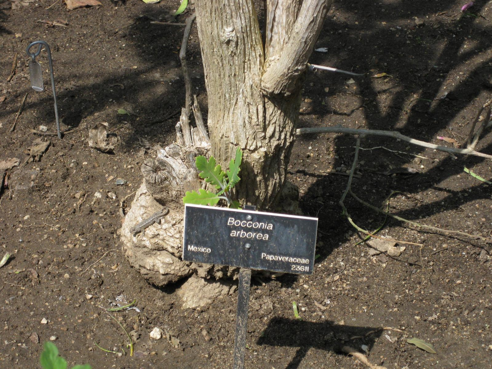 Photographed at Huntington Gardens (Los Angeles, California) in March